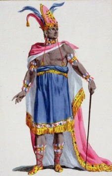 Engraved portrait of Montezuma (Moctezuma II)